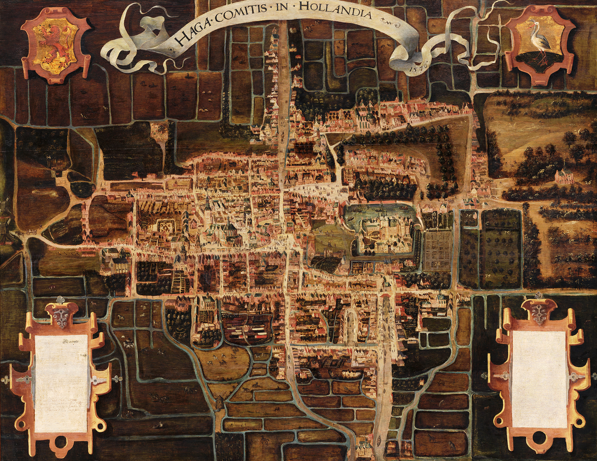 Map of The Hague, the Netherlands, made by Cornelis Elandts after an older map.